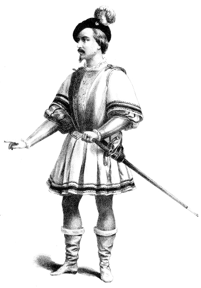 Belgian / French opera singer Victor Warot (1834-1906) as Don Alvar in Meyerbeer's L'Africaine in 1865